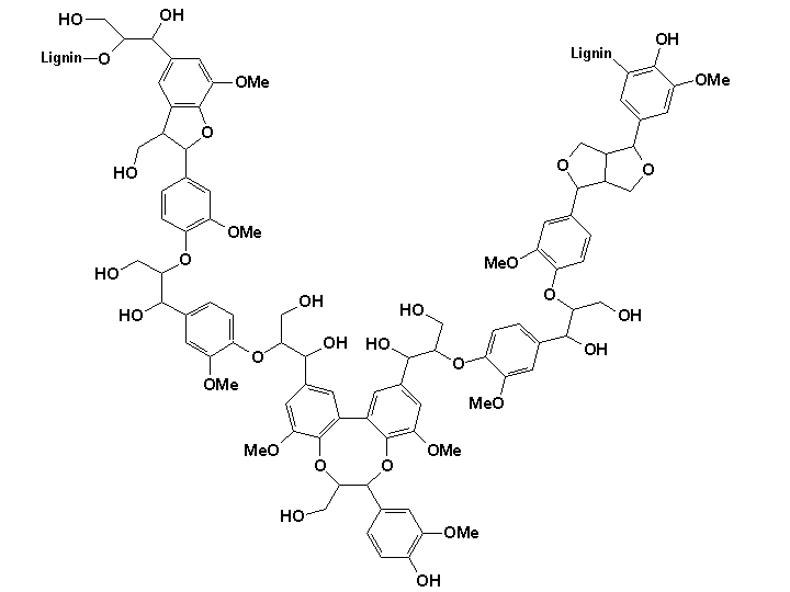 Structural formula of lignin. Picture created by User:Chino and hereby released to the public domain.